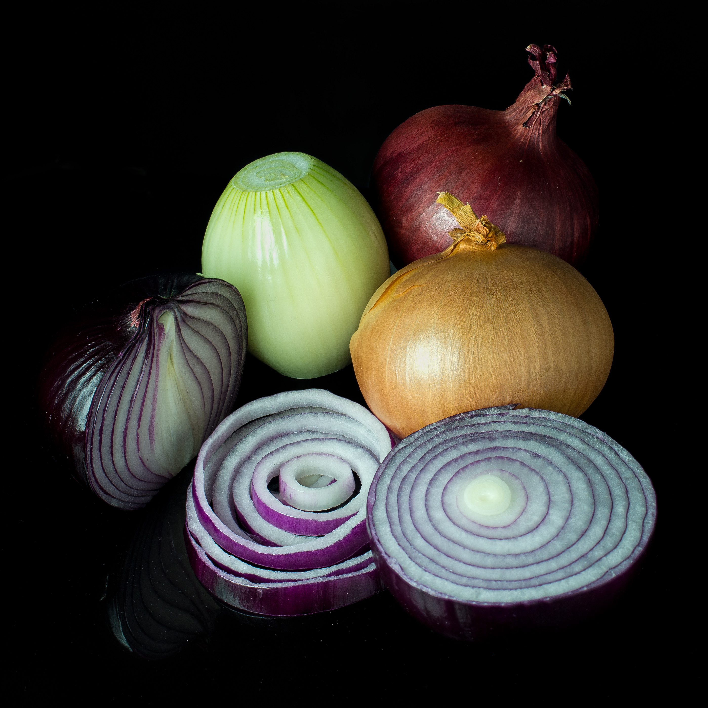 Mixed onions: red and brown onions, with and without skin, whole and sliced and in rings.